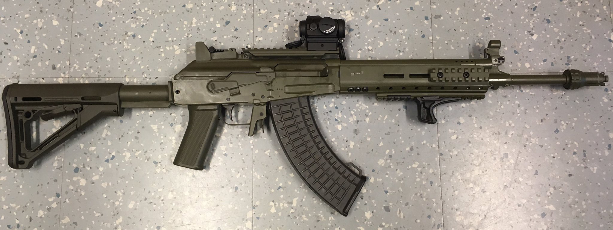 RK62M3 Rifle